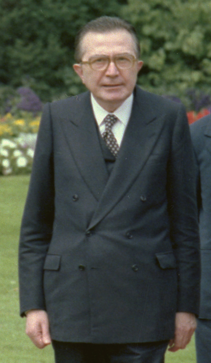 Giulio Andreotti, Takeo Fukuda (福田赳夫), Jimmy Carter, Helmut Schmidt and Valéry Giscard d'Estaing at the G7 Economic Summit in Bonn, Germany., 06/16/1978 Source: NARA - ARC Identifier: 180380